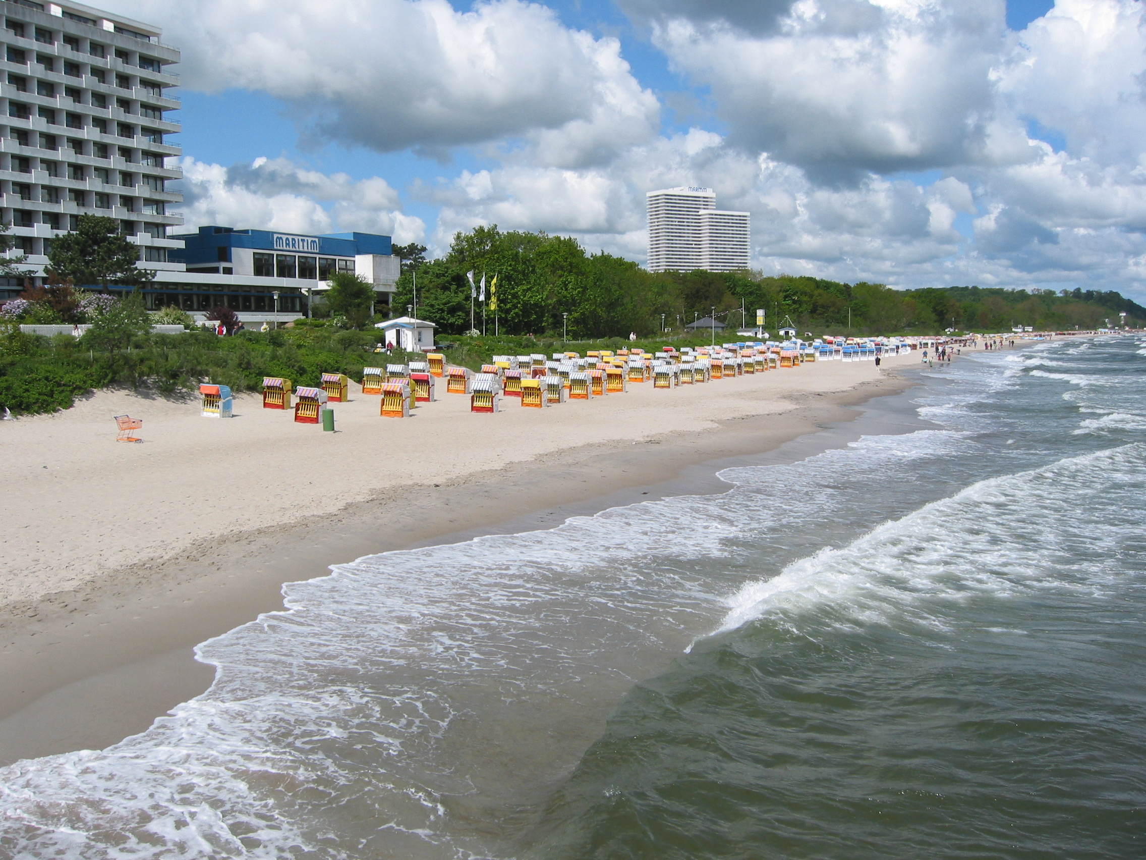 Timmendorfer Strand, Germany, 2004.